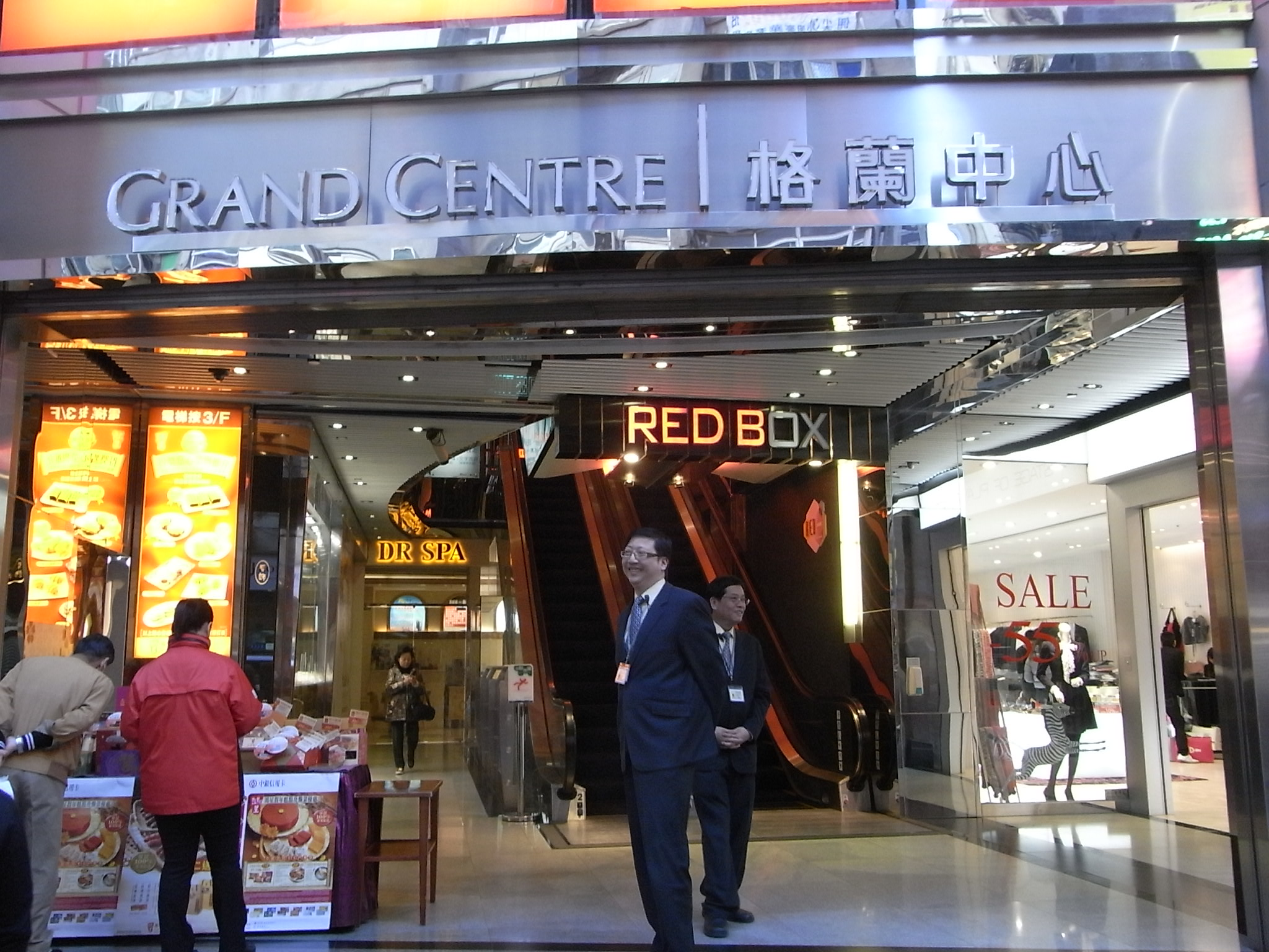 尖沙咀 加拿分道 格蘭中心